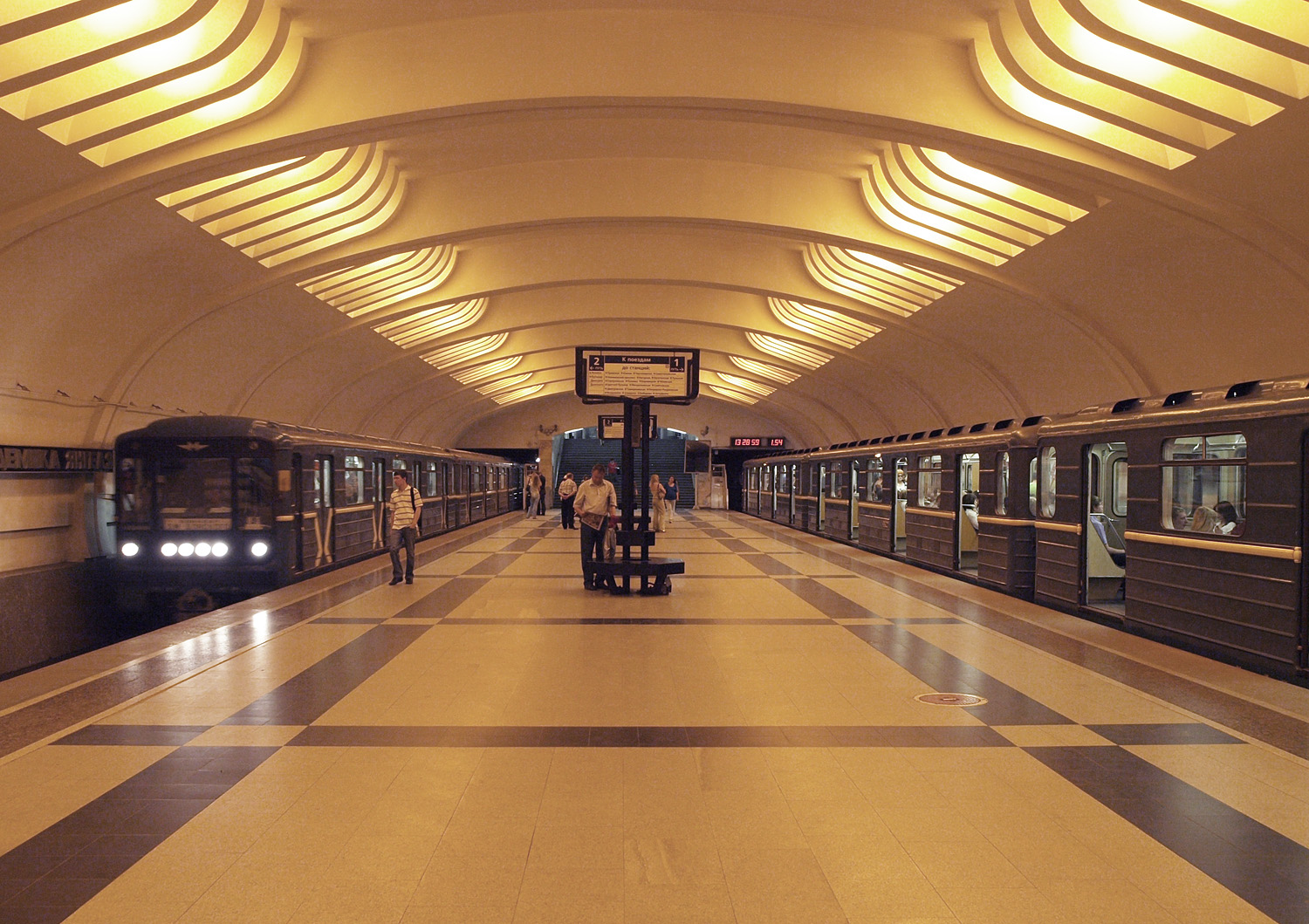 Ulitsa Akademika Yangelya station, Moscow Metro